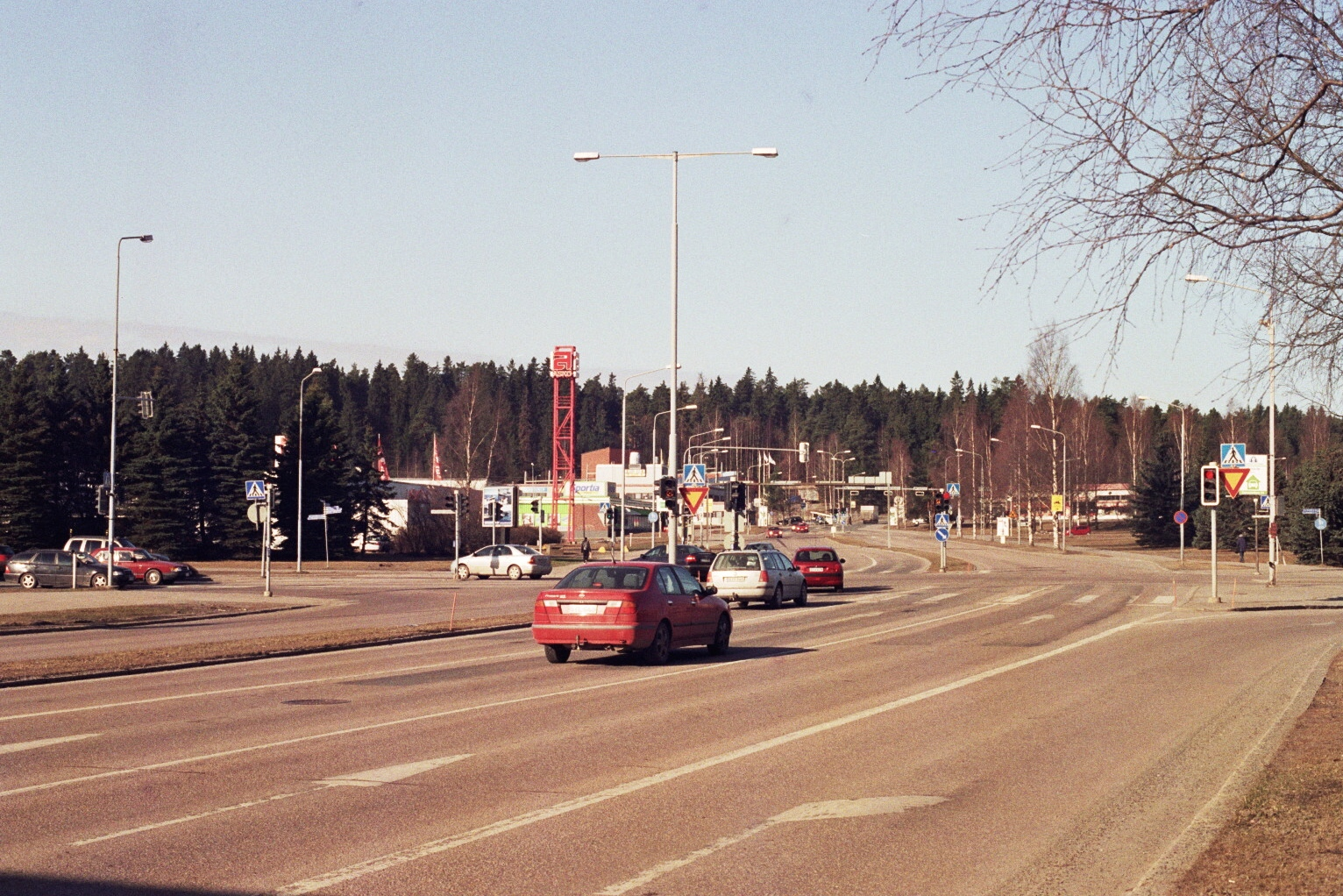 The crossing of the streets Hervannan valtaväylä (left–right) and Sammon valtatie (forward) in the city of Tampere in Finland.